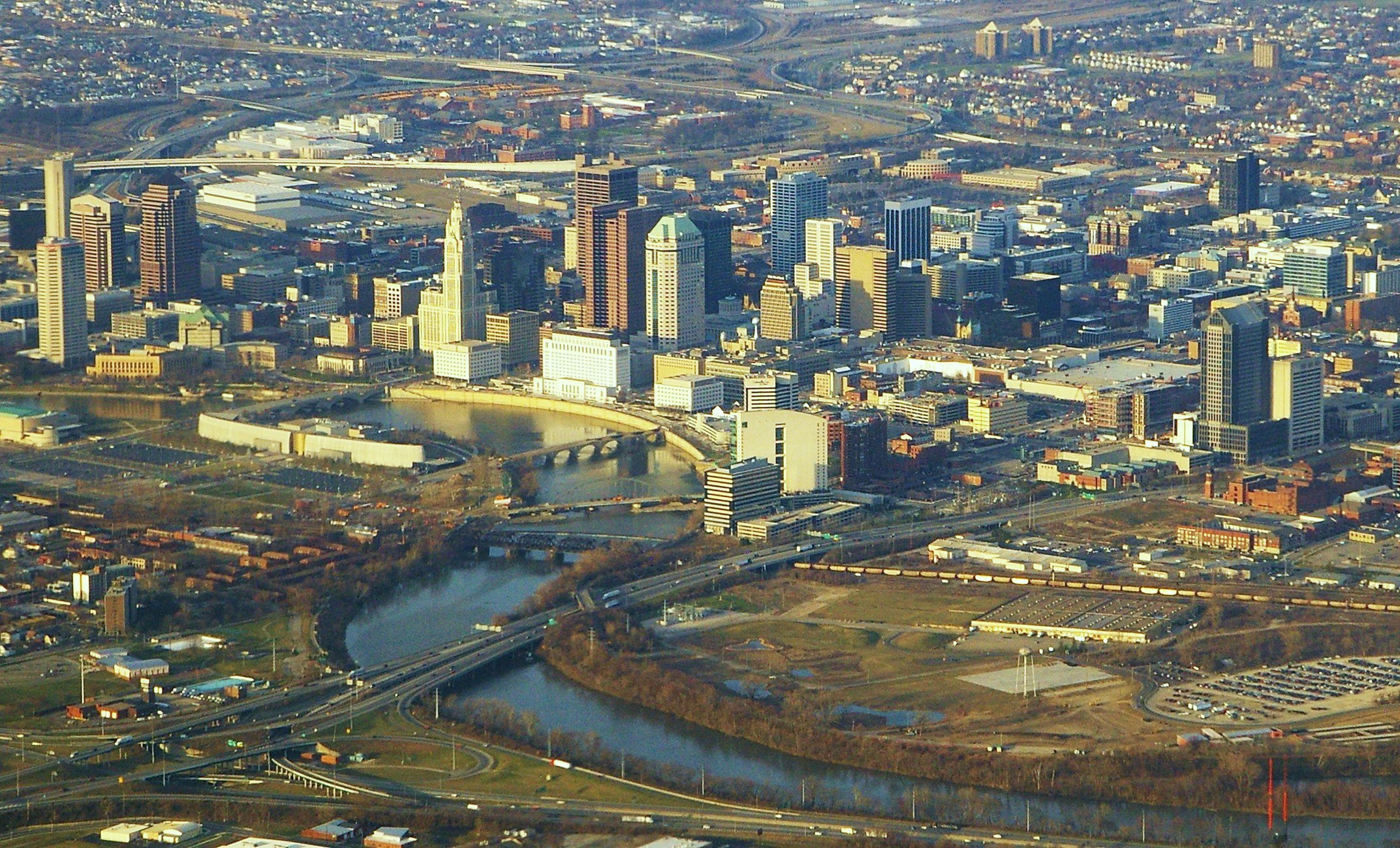 Columbus, capital of Ohio. Scioto River running through it.